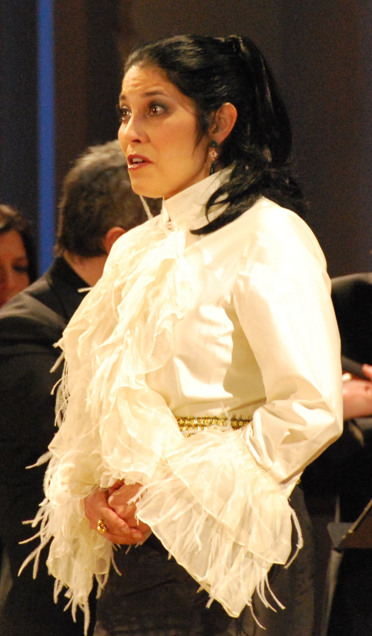 Vivica Genaux, Misteria Paschalia Festival, Kraków Philharmonic, 05.04.2010.